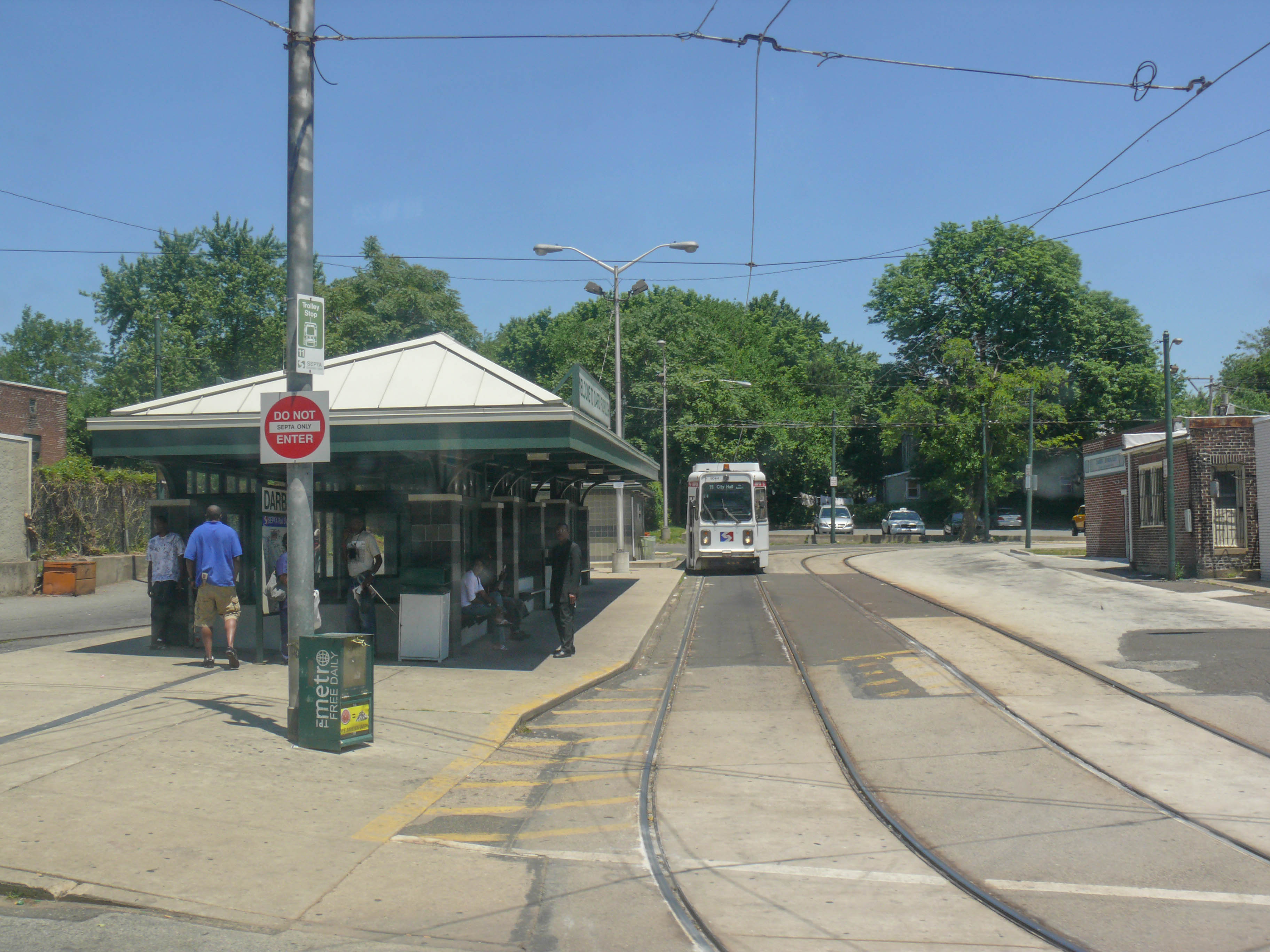 A SEPTA LRV at Darby Transportation Center in June 2008